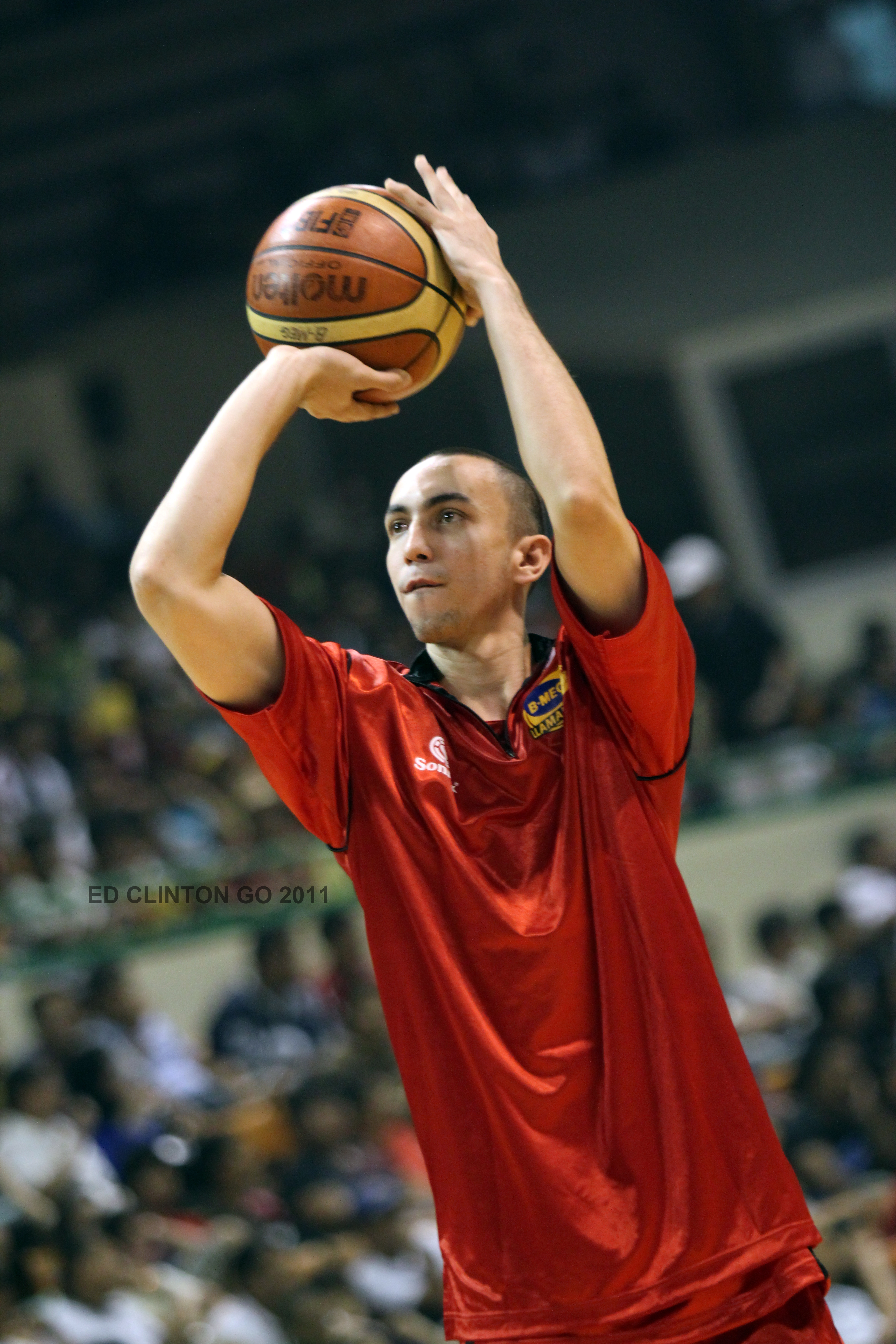 Rico Maierhofer at the BMEG Llamados game VS Talk N' Text Tropang Texters last October 21, 2011 at Cuneta Astrodome, Pasay City.